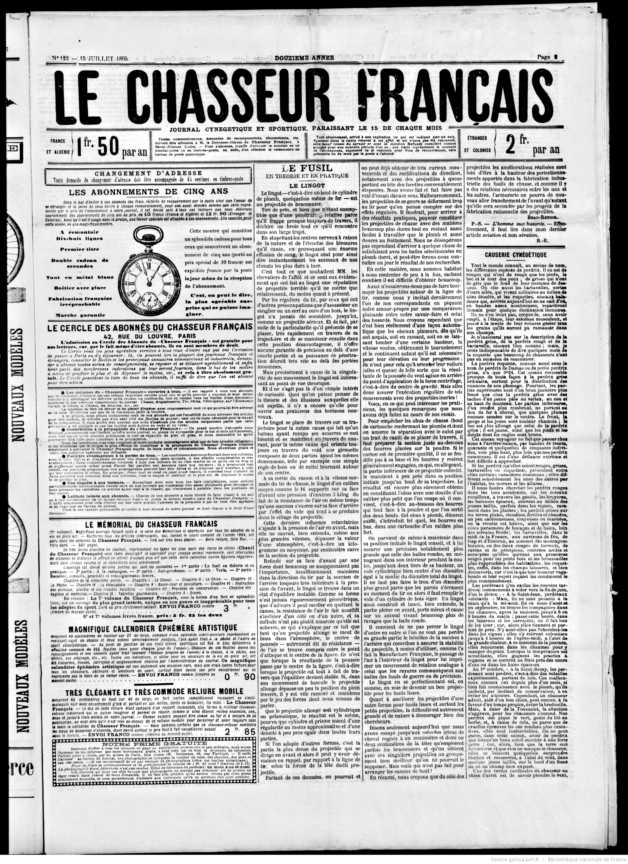 Cover page of Le Chasseur français, extracted from the pdf of the BnF.